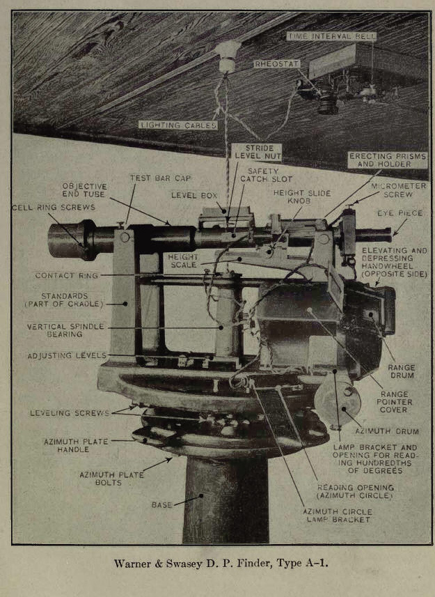 Plate XXI, following p. 304, of "The Service of Coast Artillery," Frank T. Hines and Franklin W. Ward, Goodenough & Woglom Co., New York, 1910. Book is part of the Microsoft Internet Archive digitizing project, 2007, and is freely available on the Internet. Book was produced for the U.S. War Department, which likely contributed the image.